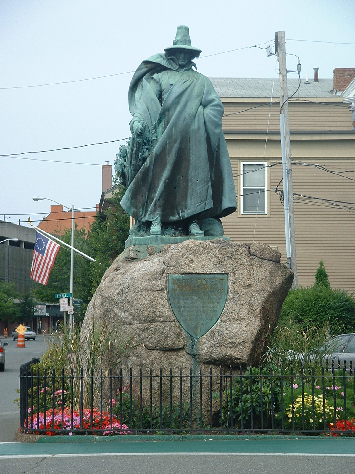 Statue of Roger Conant. Sculptor Henry Hudson Kitson.